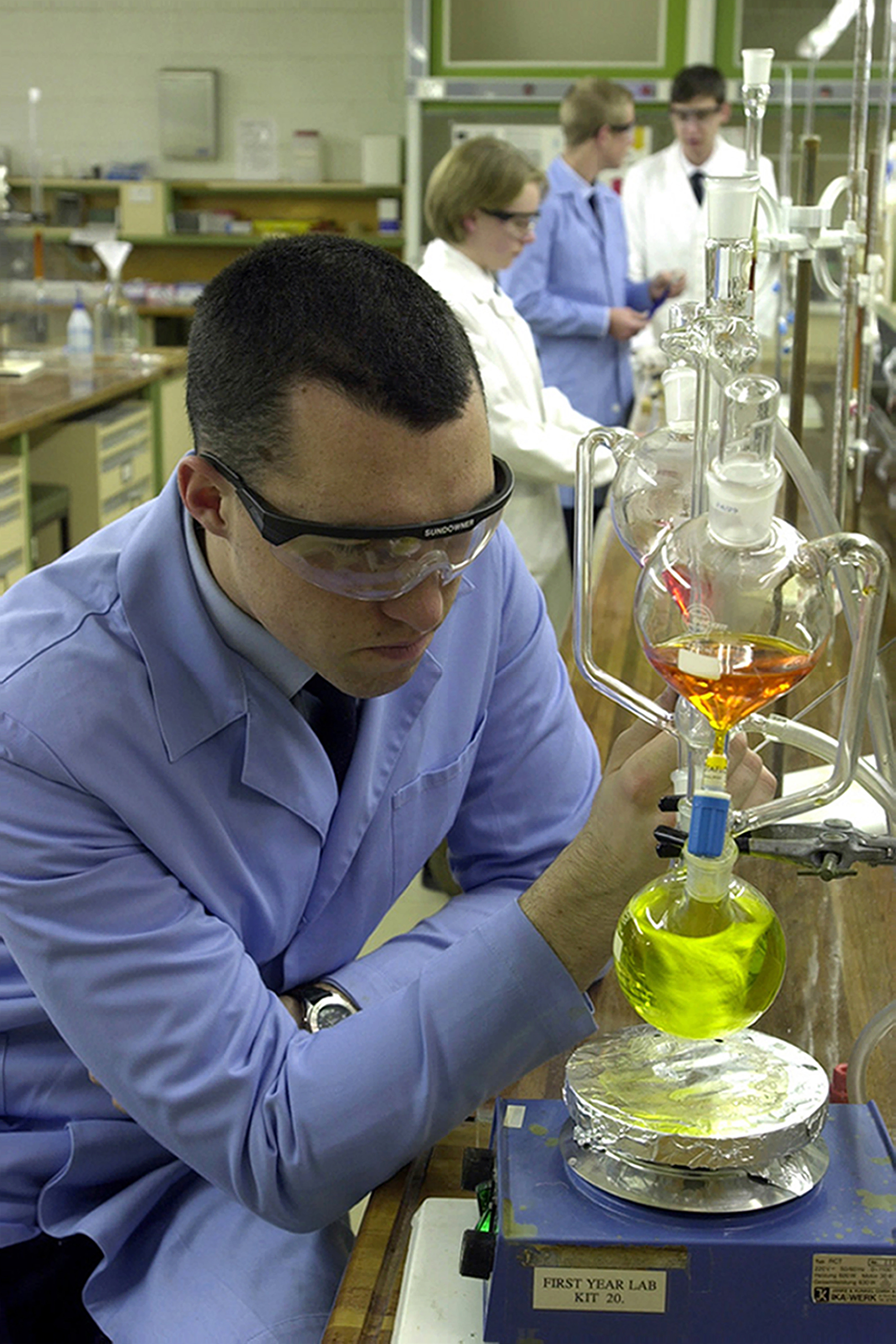 Chemistry Lab located in PEMS